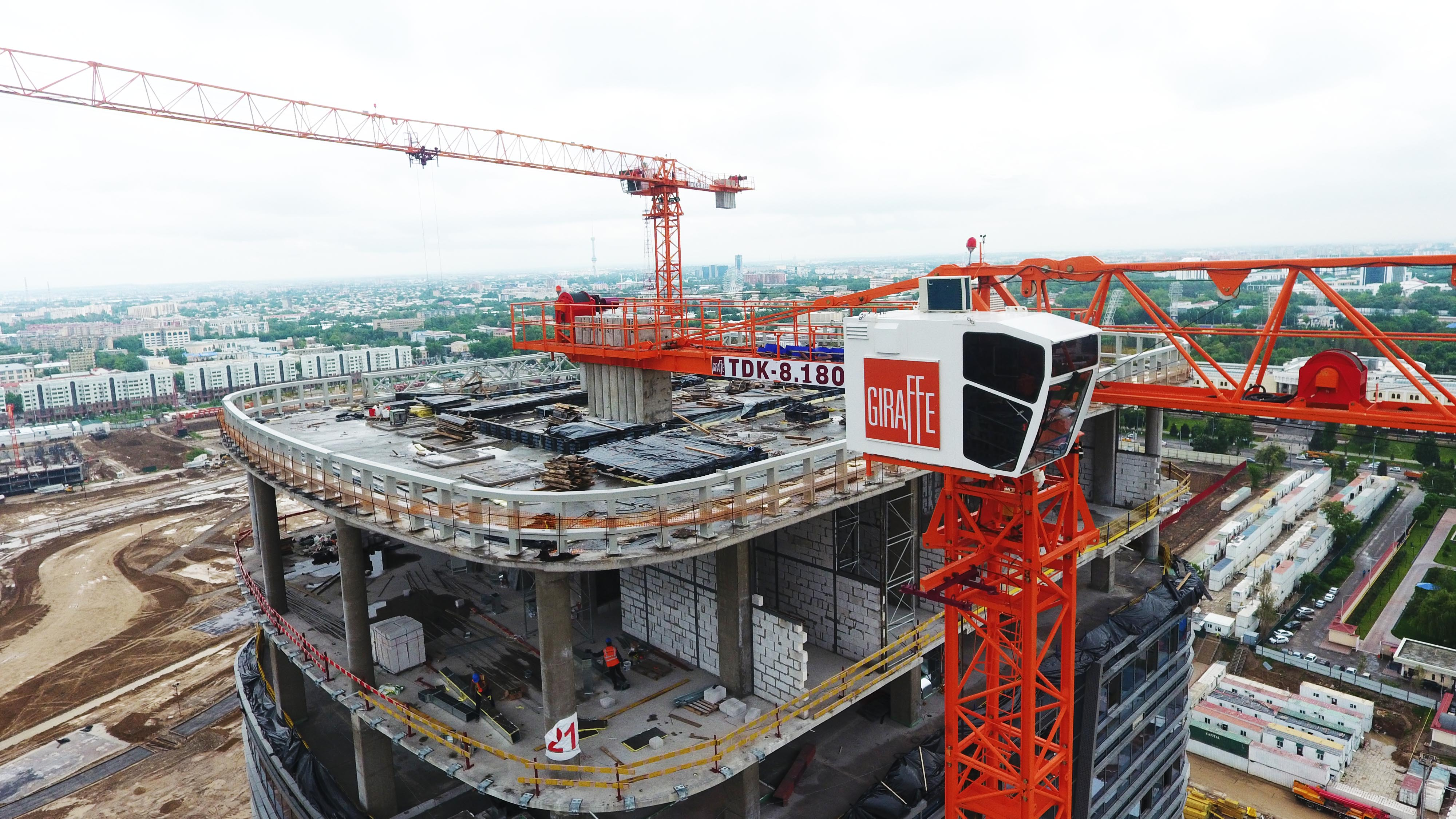 TDK-8.180